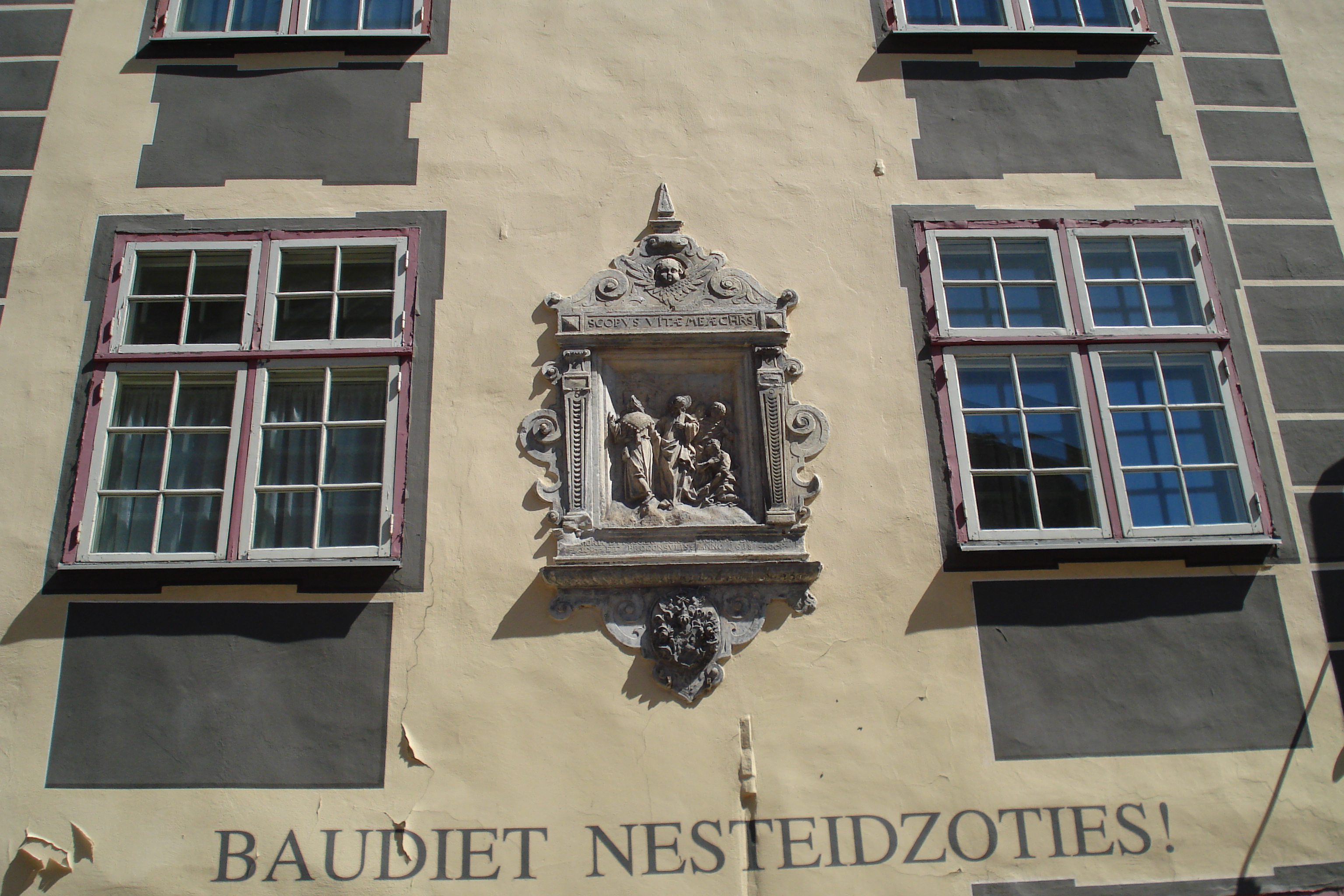 Guest house "Ekes Konvents" and "Apsara" tējnīca in Riga (Skārņu iela 22, Rīga). Building of 1435 - end of the 16th century. Detail